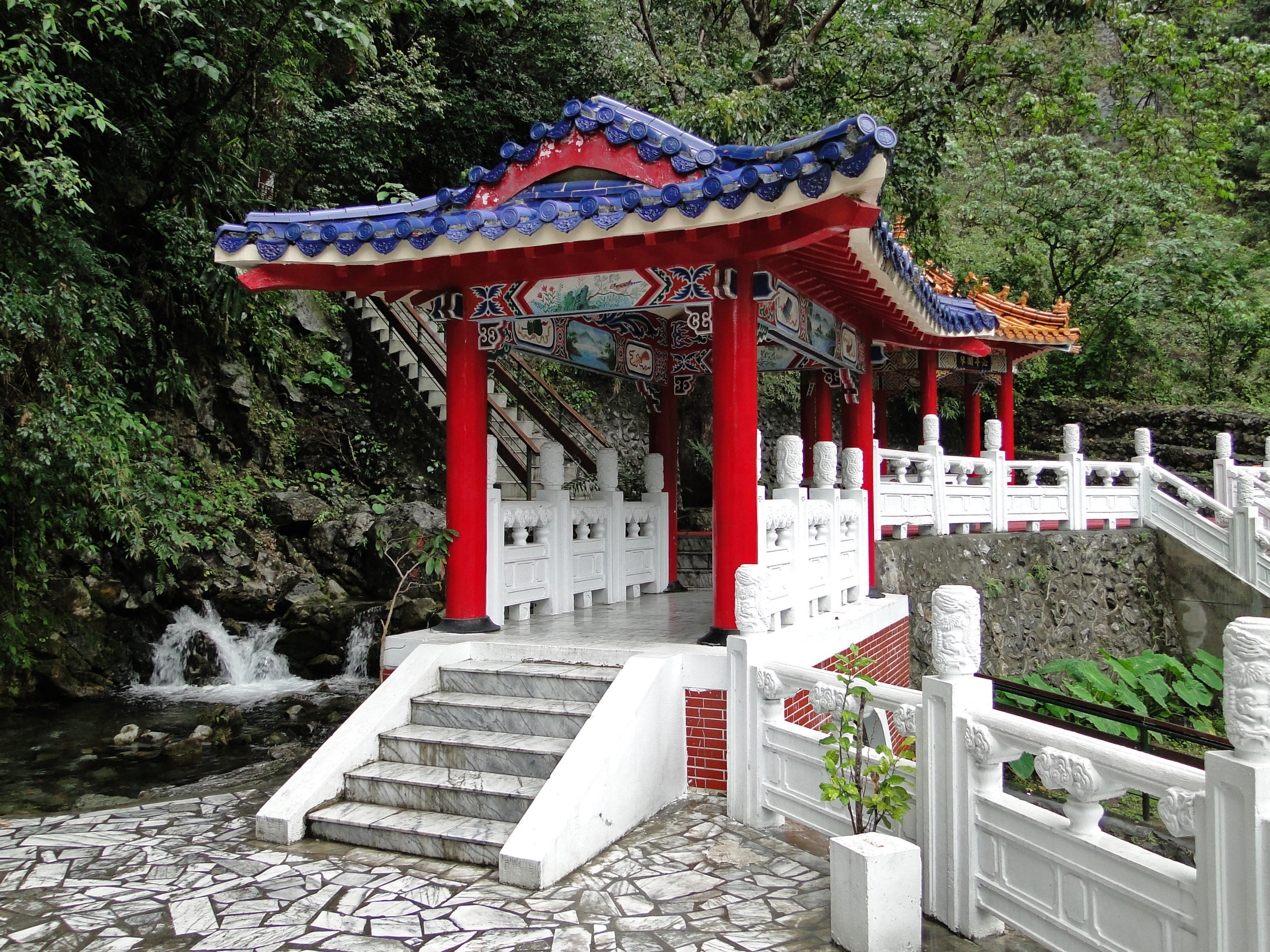 Entrance of the Changchun Shrine in Taroko National Park, Taiwan